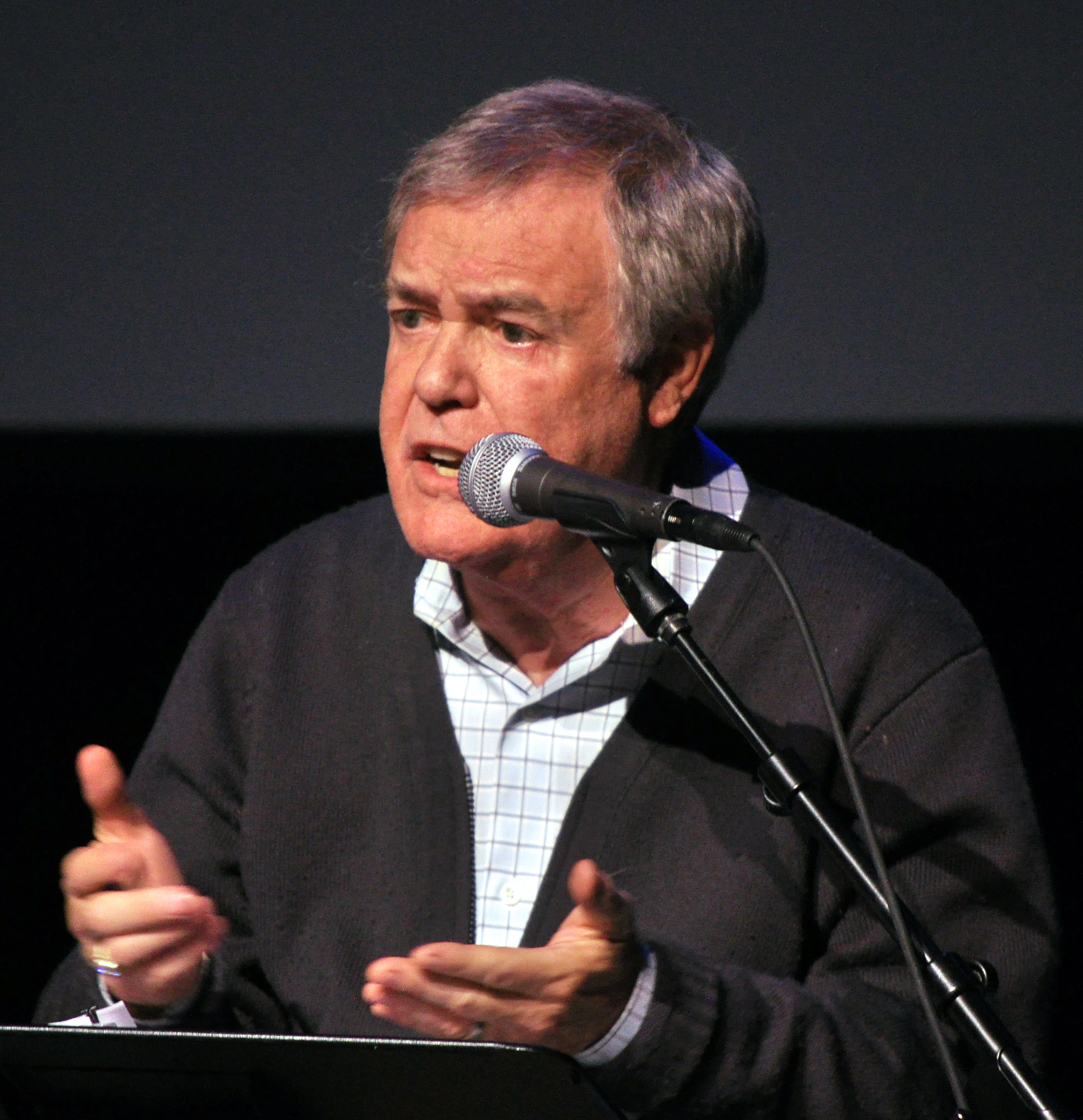 Surviving Firesign Theatre member Philip Proctor paying tribute to the late Peter Bergman. The tribute performance by the surviving members of the troupe was called the "Big Brouhaha" and took place April 21, 2012 at the Kirkland Performance Center, Kirkland, Washington, USA.